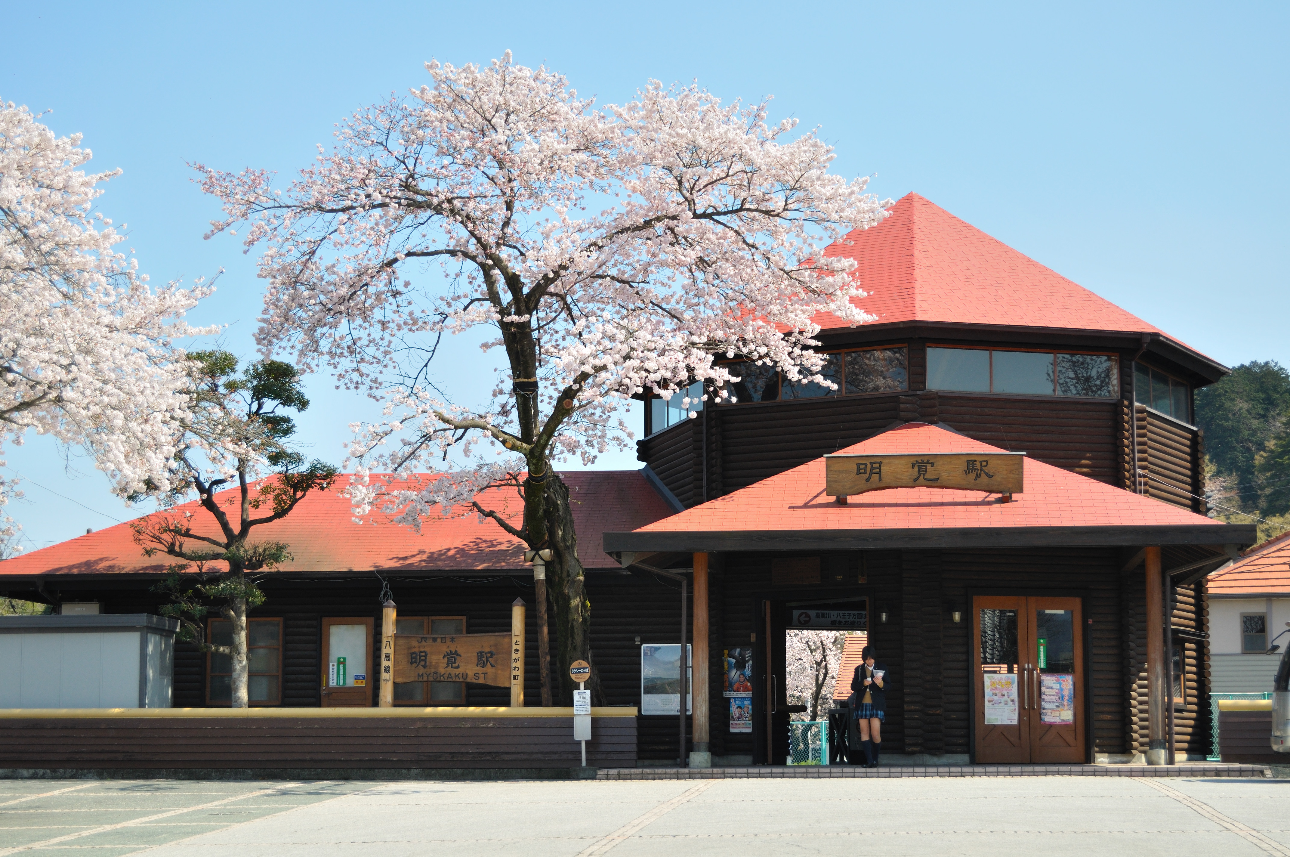 Myokaku Station on the Hachiko Line in Saitama Prefecture, Japan